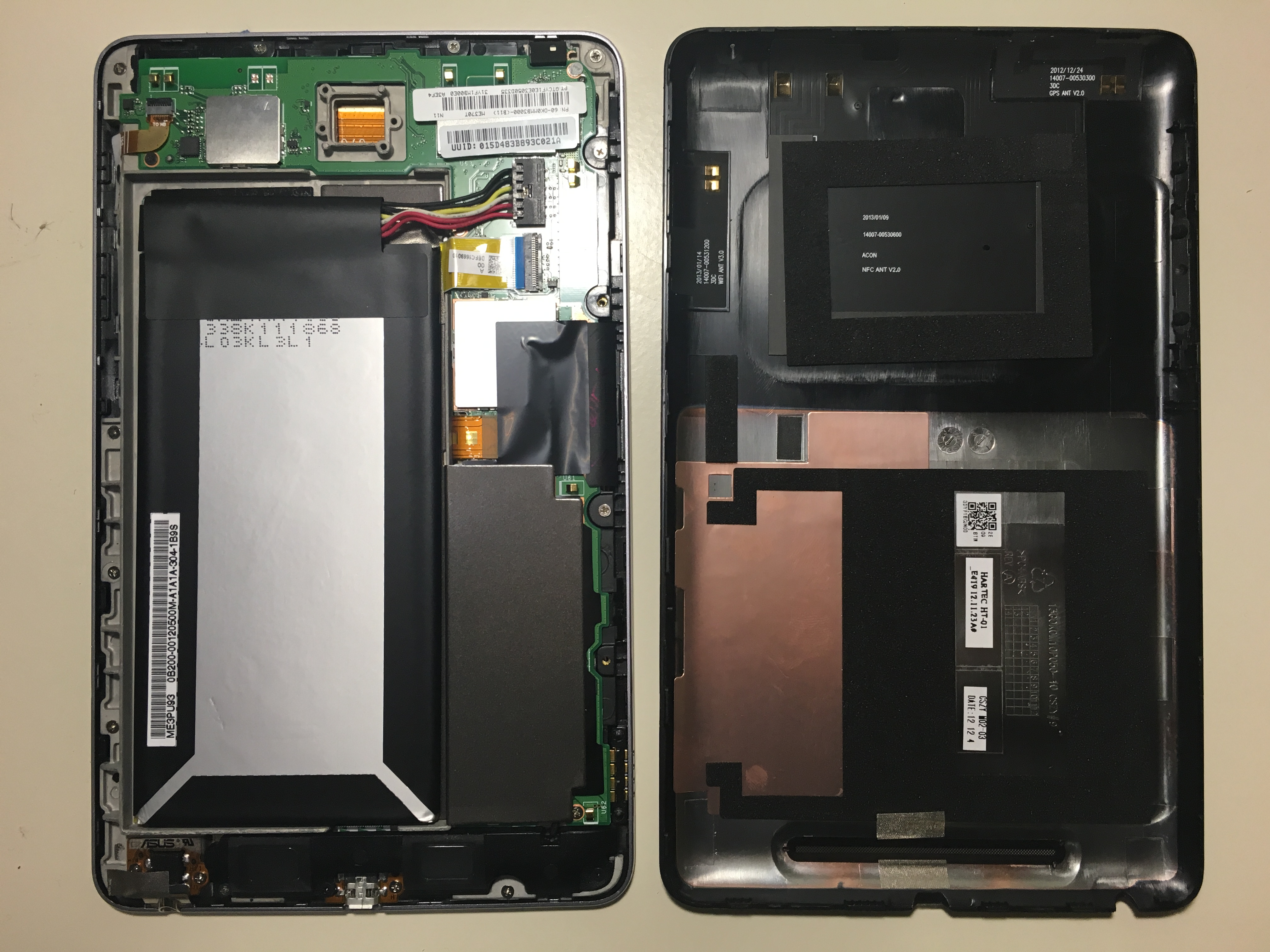 A 2012 Nexus 7 with the back panel removed and the inner components visible